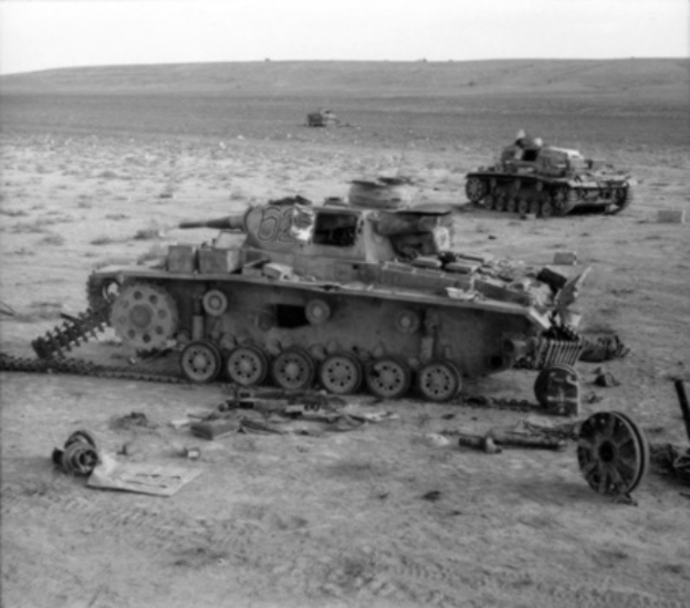 Damaged German Panzer IIIs in the "Valley of Death" near Belhamed, Libya, during "Operation Crusader".